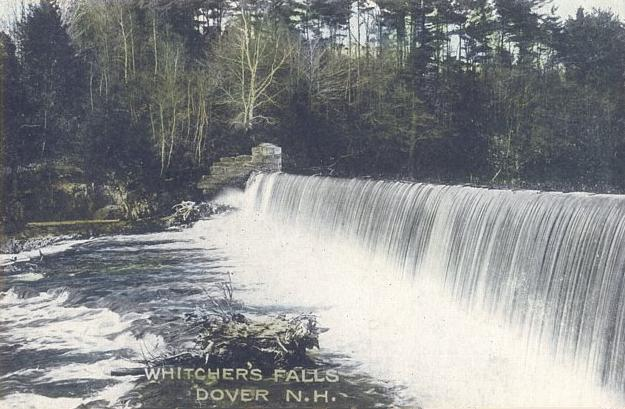 Whitcher's Falls, Dover, NH; from a c. 1910 postcard.